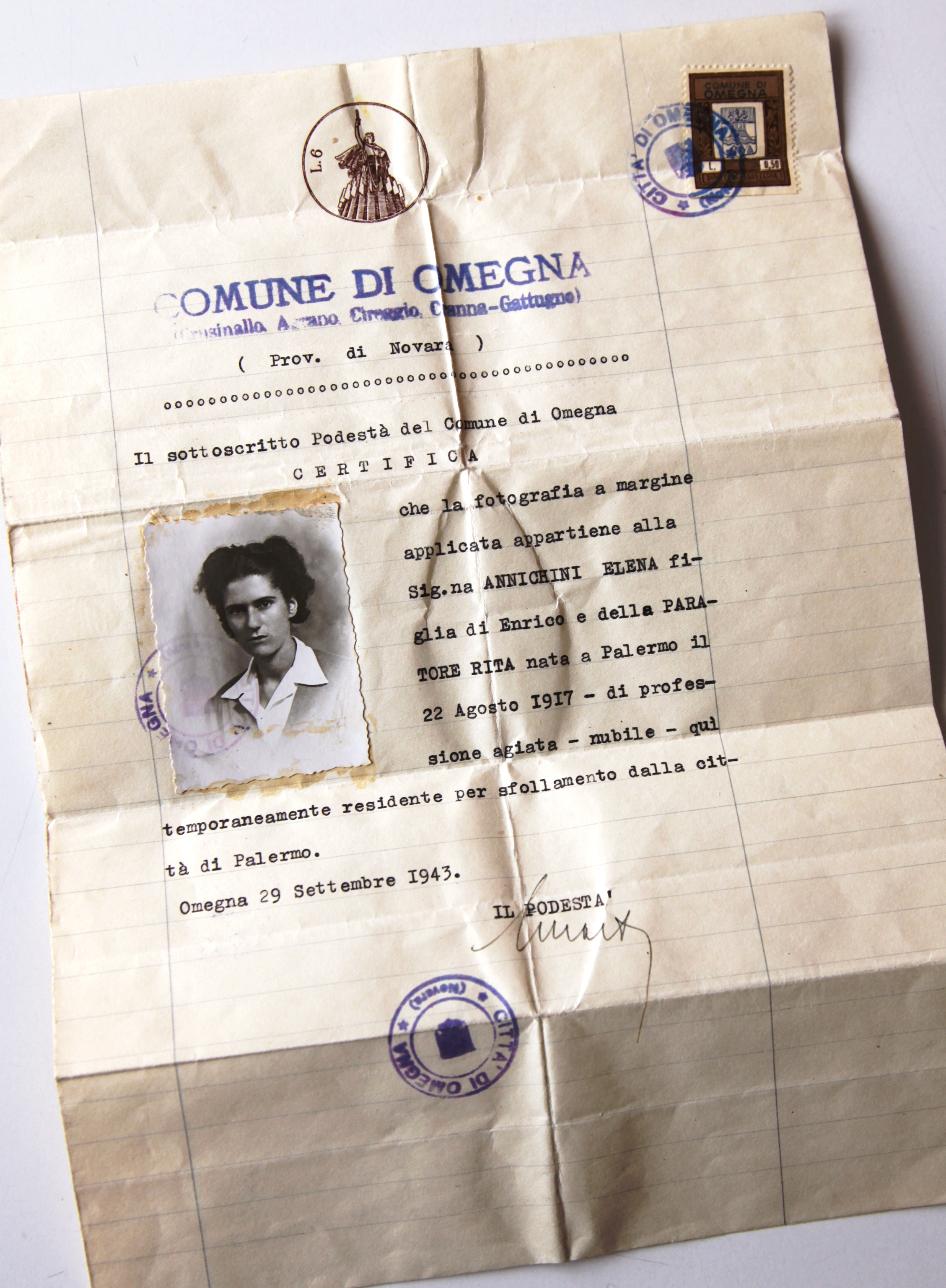 Forged document of Elena Bachi in Elena Annichini. In September 1943, Elena Bachi succeeded to escape from the nazis, with those forged document.